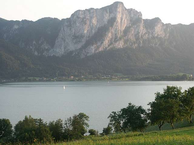 Picture of the Mondsee from the north.